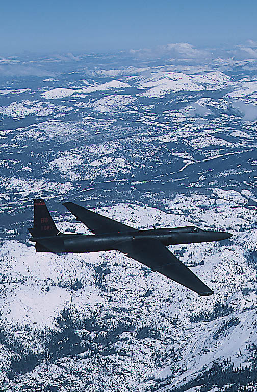 Lockheed U-2